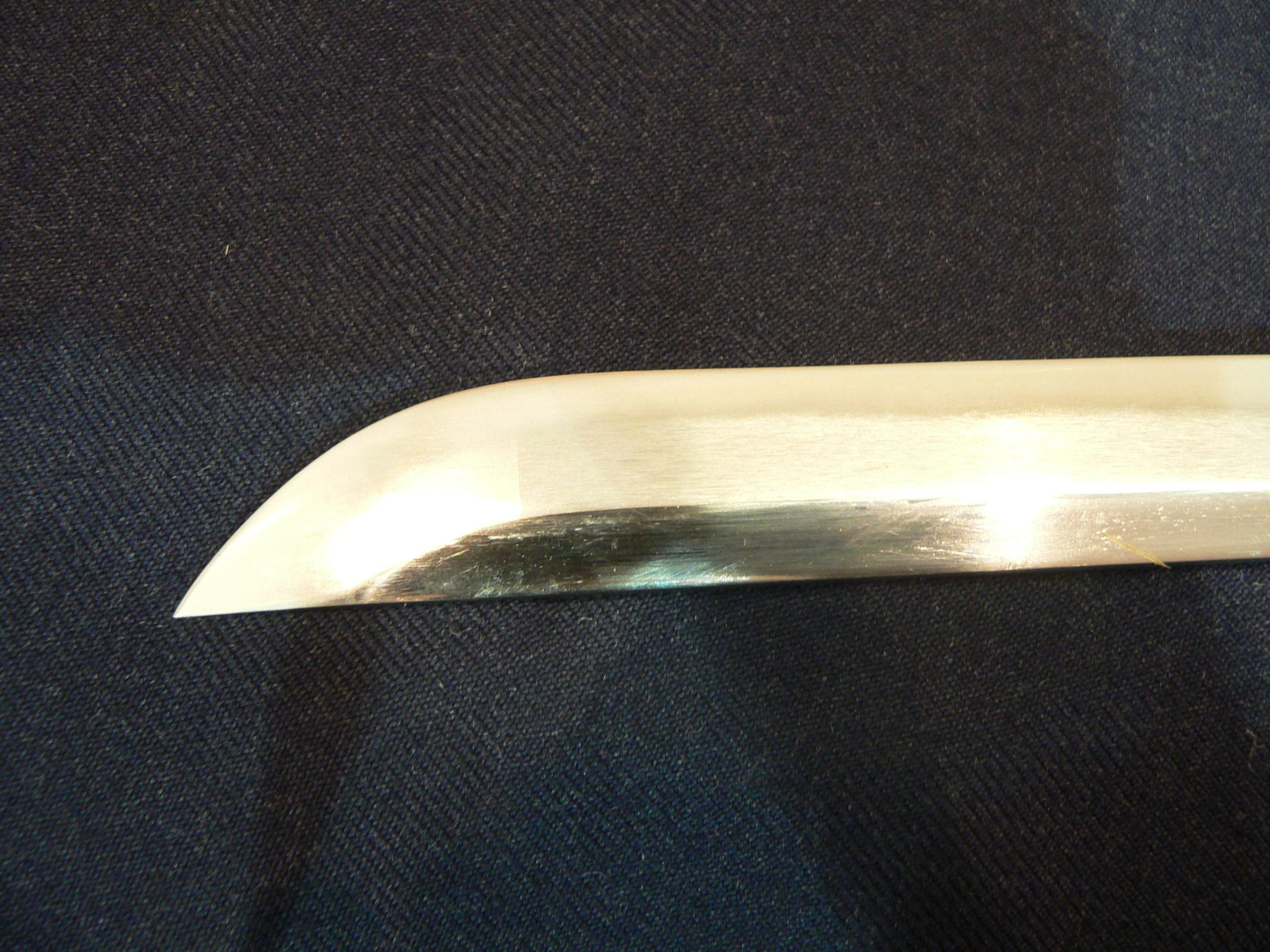 Kisagi of a modern katana